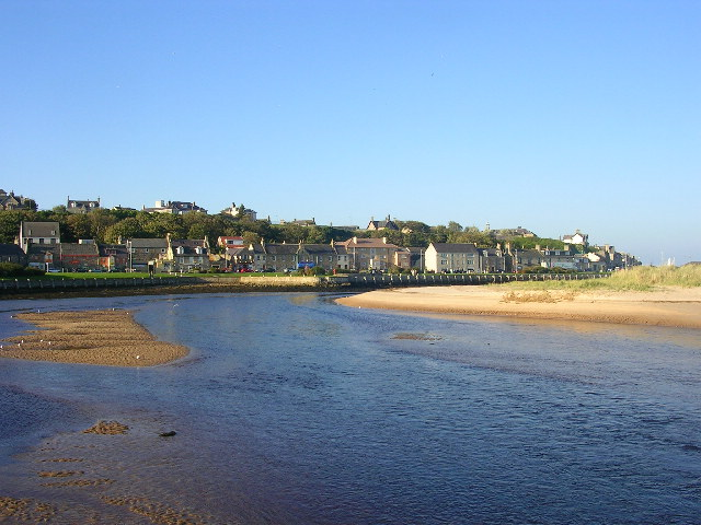 The Mouth of the River Lossie.